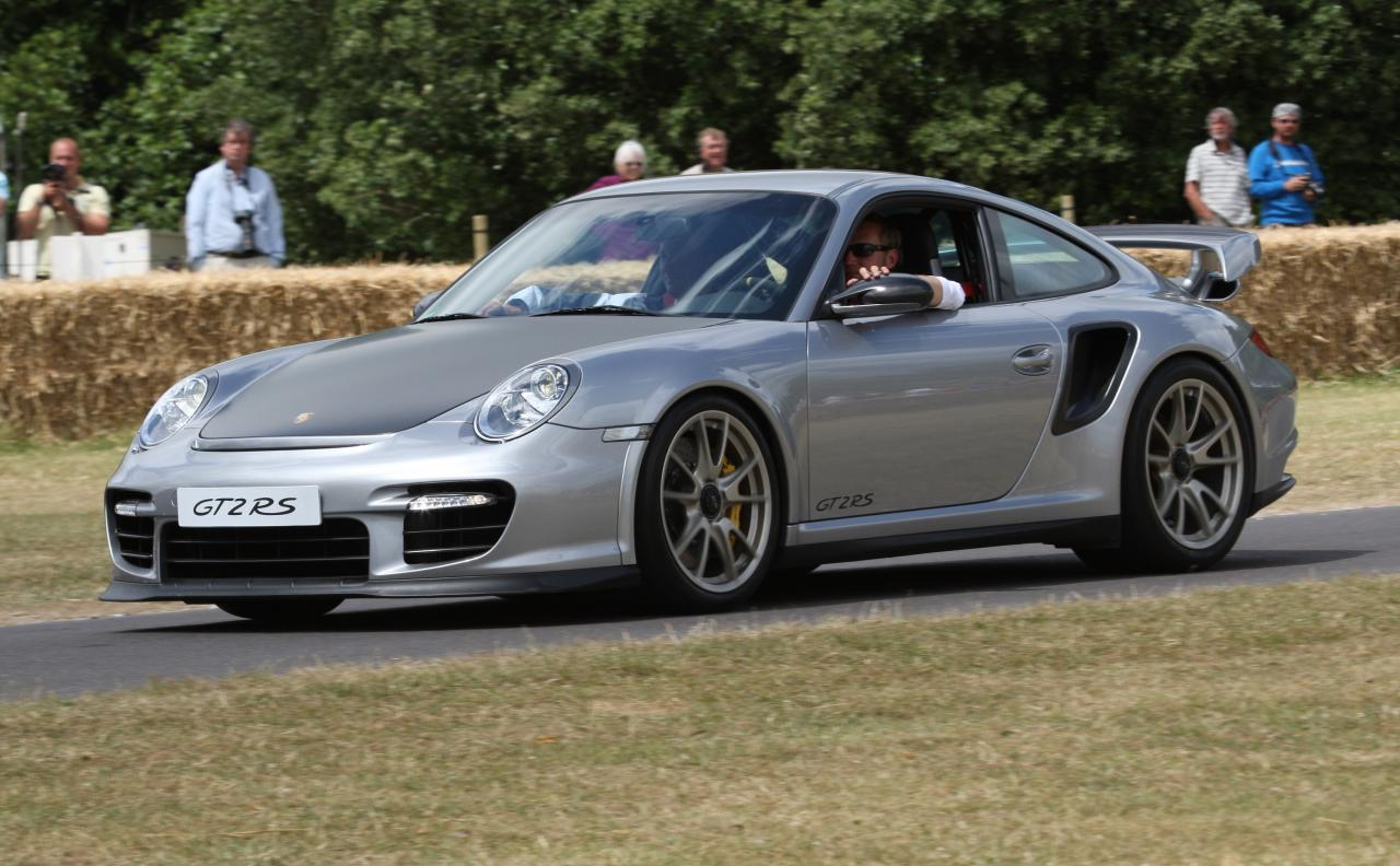 Goodwood Festival of Speed 2010 - 620 bhp Porsche 997 GT2 RS.Goodwood Festival of speed 2010 porsche gt3